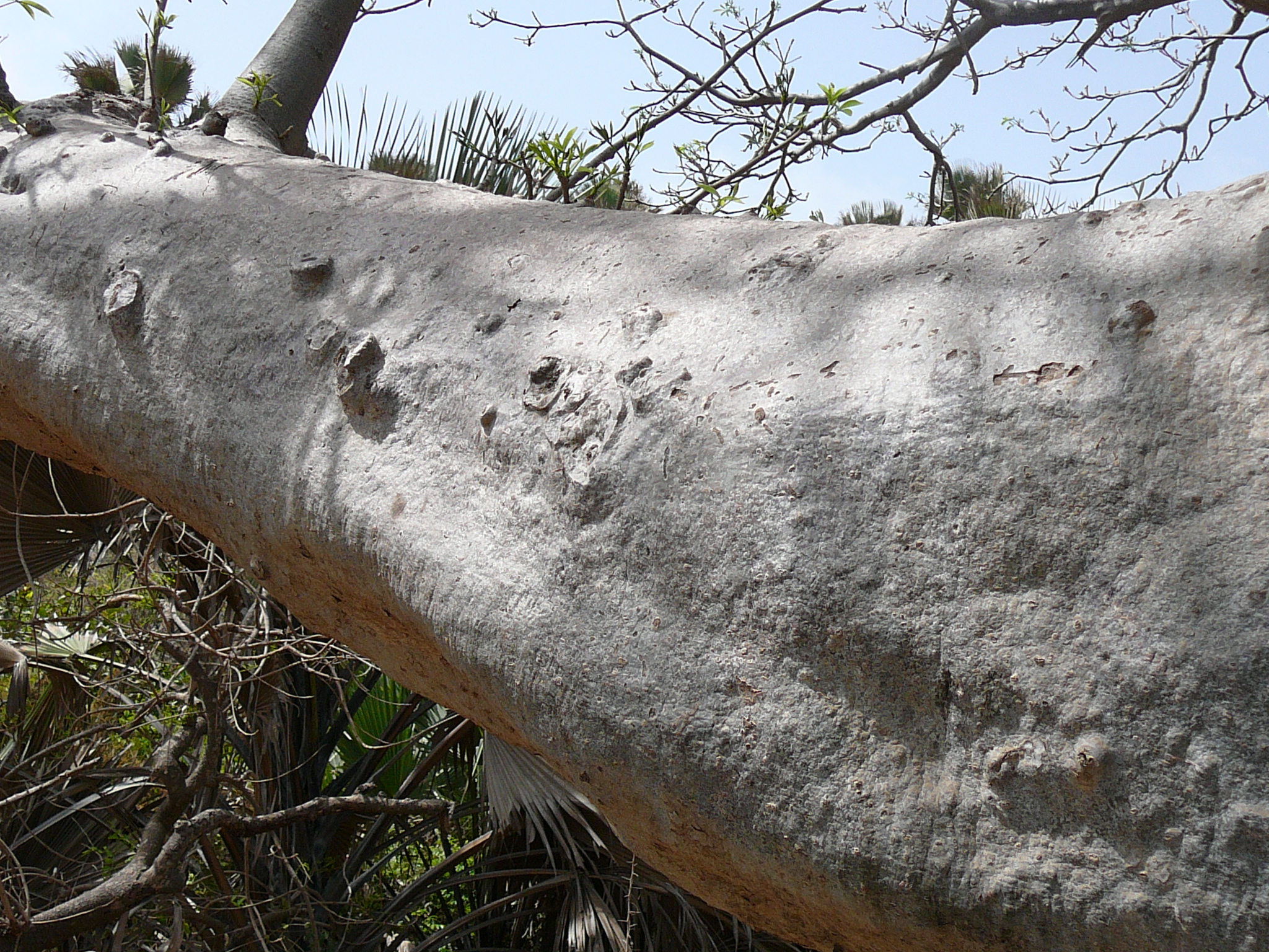 Adansonia digitata